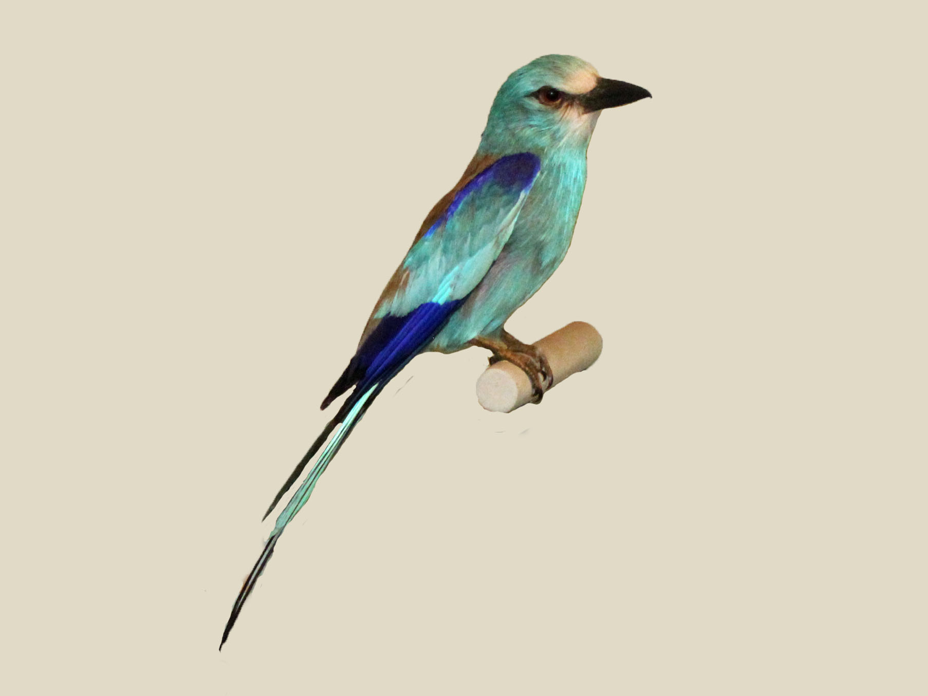 Abyssinian Roller (Coracias abyssinicus). Photograph of a specimen at Nairobi National Museum in Nairobi, Kenya.